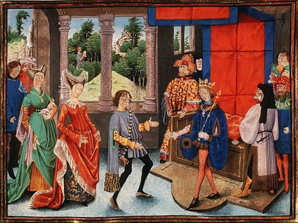 St. Hubert of Liège offers his services to Pepin of Herstal; the conversion of St Hubert (background) Contents: Hubert le Prevost, Vie de St. Hubert Place of origin, date: Bruges, David Aubert (scribe), Loyset Li‚det (illuminator); 1463 Material: Vellum, ff. 76, 323x244 (204x150) mm, 22 lines, littera hybrida (lettre bourguignonne), Binding: 18th-century brown leather; gilt Decoration: 13 miniatures (115/100x150 mm), 1 historiated initial (38x42 mm; coat of arms), decorated initials (9v, 10v, 11v, 12v, 13r, etc) Provenance: made in 1463 for Philip the Good (d. 1467), Duke of Burgundy; remained in the ducal Library till the 17th century (mentioned in the inventories of 1467, 1487, 1536, 1577, 1598 and 1614). Disappeared after 1643. H.-N. de Villenfagne d'Ingihoul, Bruxelles (d. 1826).Purchased in 1826 by King William I of The Netherlands and placed in the Koninklijke Bibliotheek